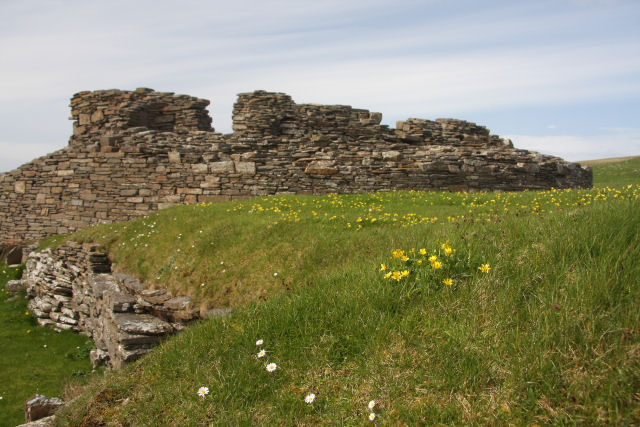 Mid Howe broch, near to Westness, Orkney Islands, Great Britain. Celandines carpet the grass surrounding this 2000-year old broch.